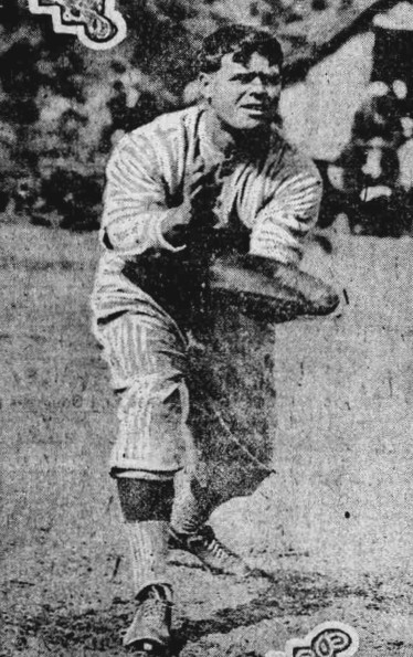 Professional baseball player George Gibson